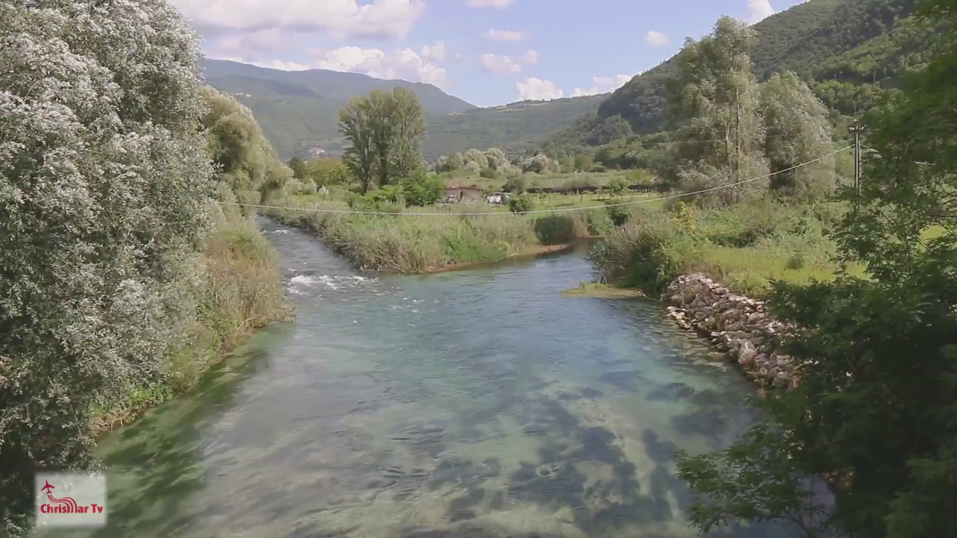 The point where the Peschiera river (right) joins the Velino river (left) - municipalty of Cittaducale, province of Rieti (Lazio, Italy)